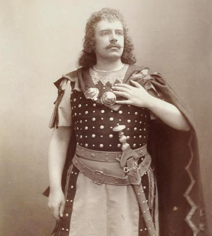 Polish tenor Jean de Reszke (1850-1925) as Tristan in Wagner's Tristan und Isolde